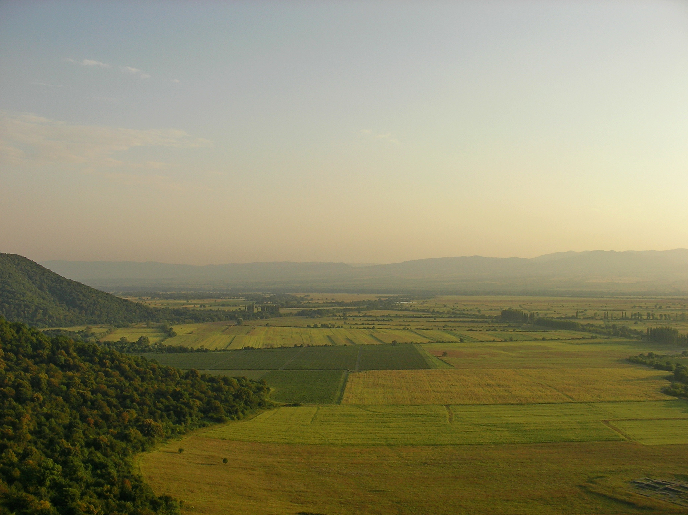 Alazani valley